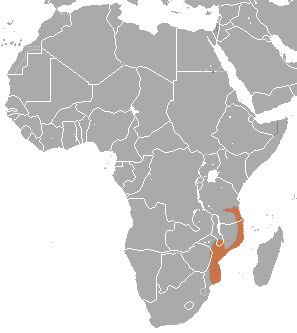 Grant's Bushbaby (Galago granti) range